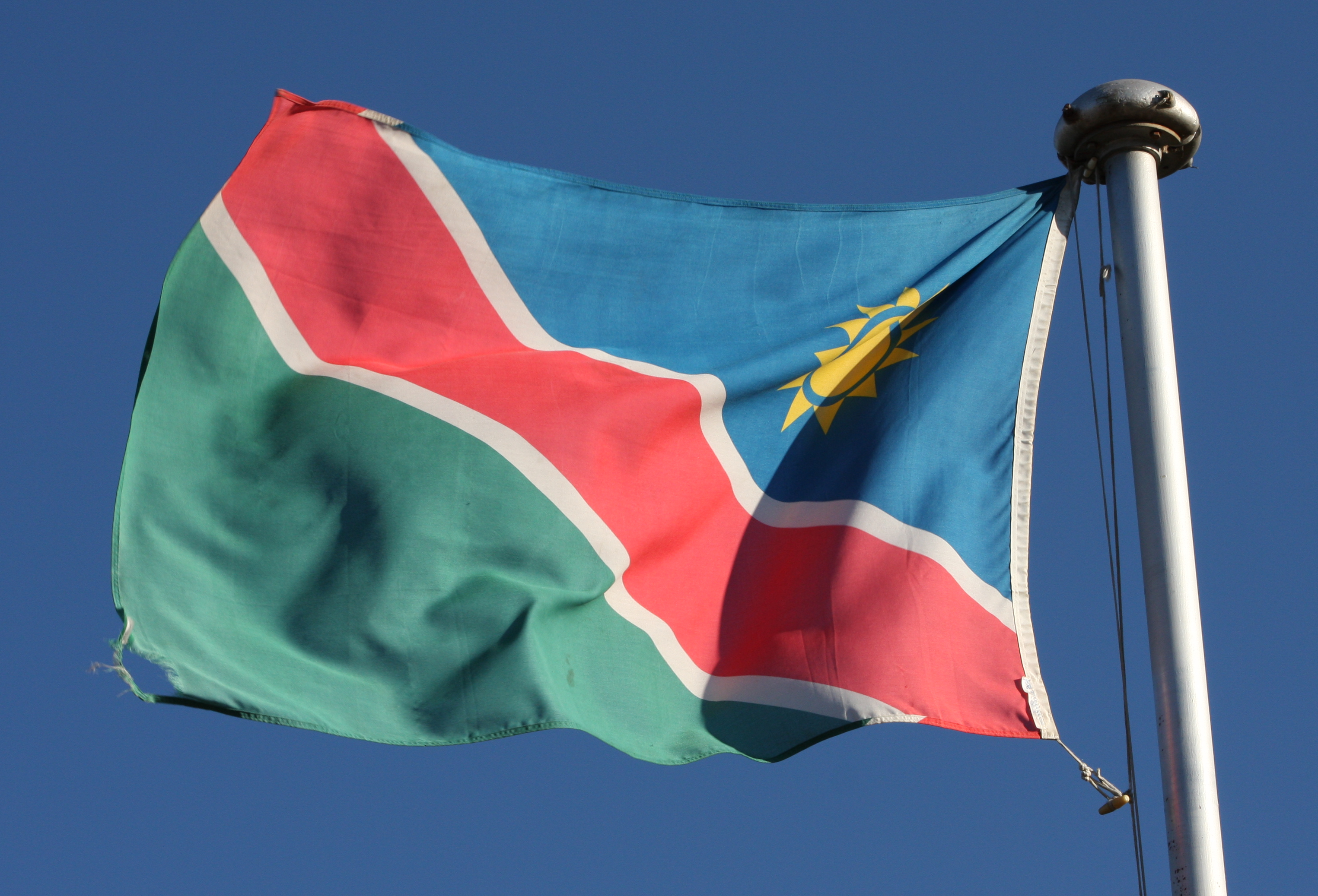 Photo of the flag of Namibia